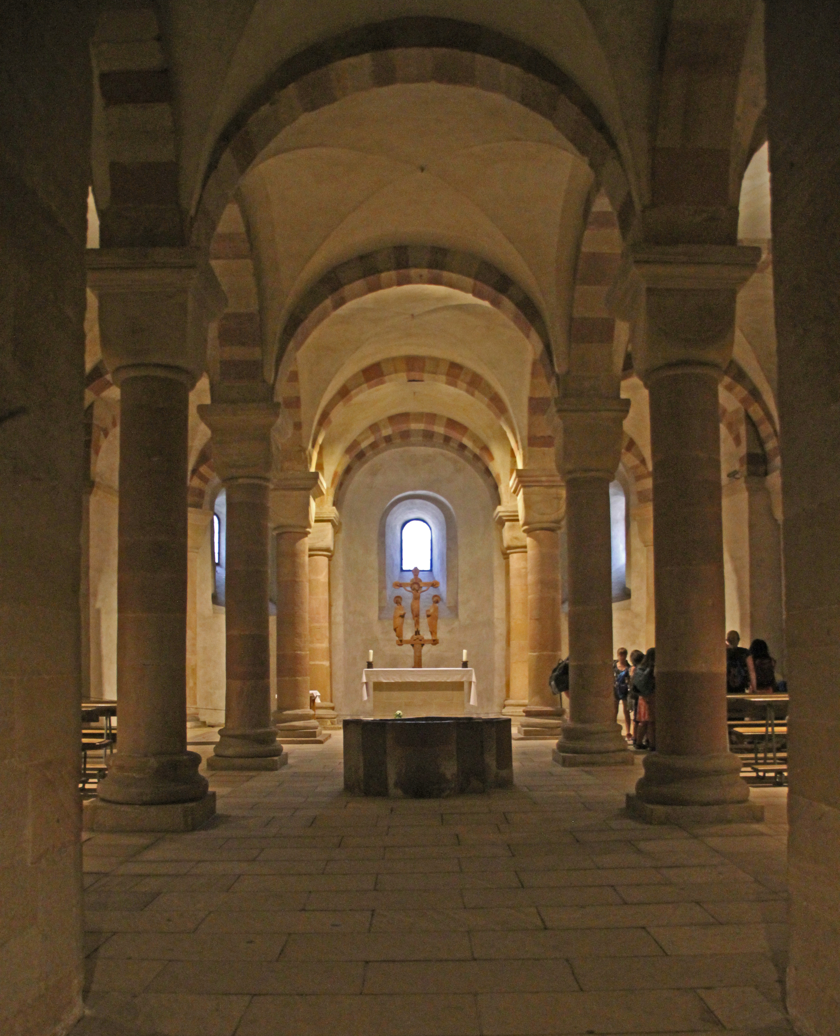 Speyer cathedral